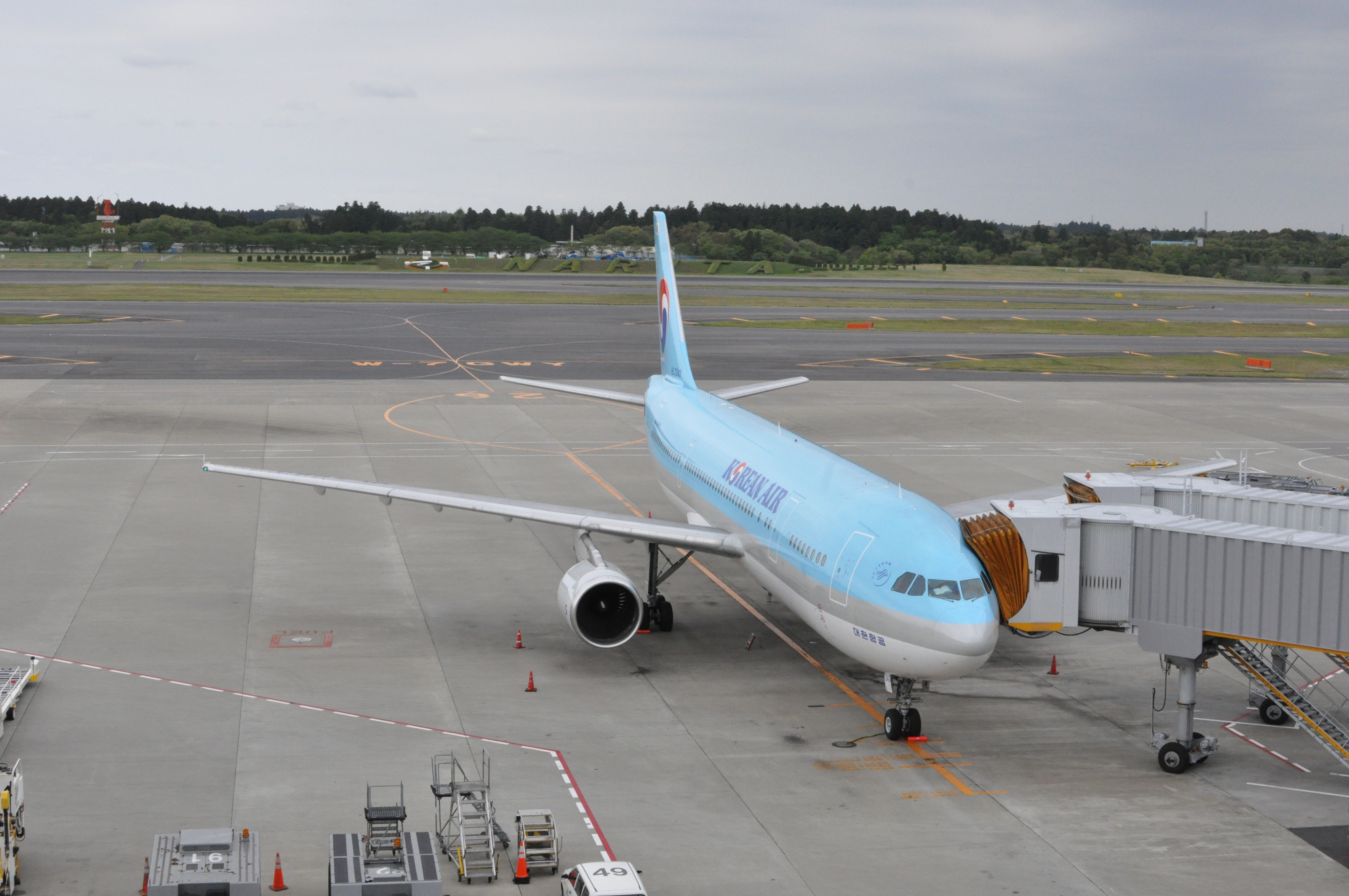 Korean Air A300-600R(HL7243)